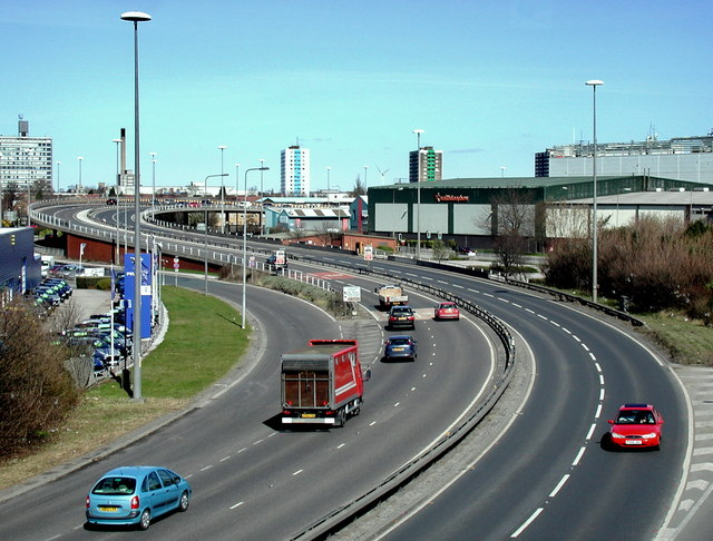 Clive Sullivan Way, Hull, East Riding of Yorkshire, England.The A63 dual carriageway sweeping into the city north of Albert Dock, looking north from the footbridge off the southern end of Strickland Street. It's Sunday so there's not much traffic. On the right is part of the huge Smith & Nephew factory complex and on the left edge of the picture is the tower block at Hull Royal Infirmary. 1189237 The blocks of flats are at Great Thornton Street off the south side of Anlaby Road. Clive Sullivan Way is named after a Cardiff born rugby league player who scored 250 tries in 352 games for Hull FC and a further 118 tries in 213 for neighbours and arch rivals Hull Kingston Rovers. An out and out sprinter, Sullivan won 15 caps for Wales and 17 for Great Britain, being given the GB captaincy in 1972 and scoring arguably the most famous try in the history of the World Cup. 'Sully' was the first (and so far only) black person to be accorded hero status by the people of Hull. He died of cancer in 1985 aged 42.